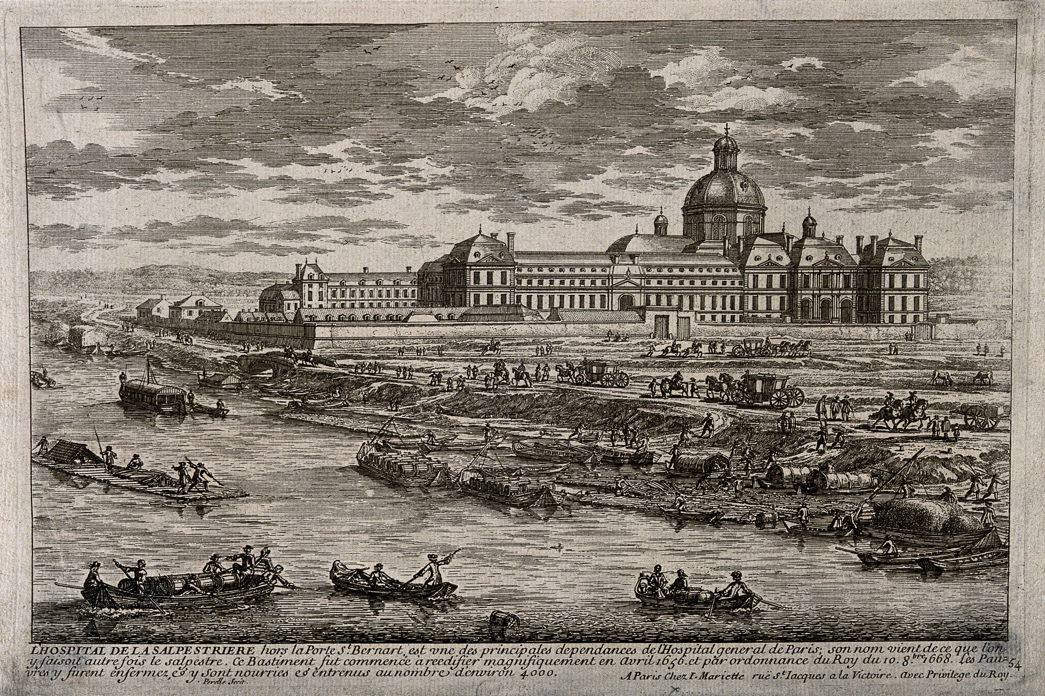 Hôpital de la Salpêtrière, Paris: as seen from the river. Line engraving by Perelle. Iconographic Collections Keywords: Hôpital Salpêtrière (Paris, France); Adam Perelle; perelle, adam 1638-1695